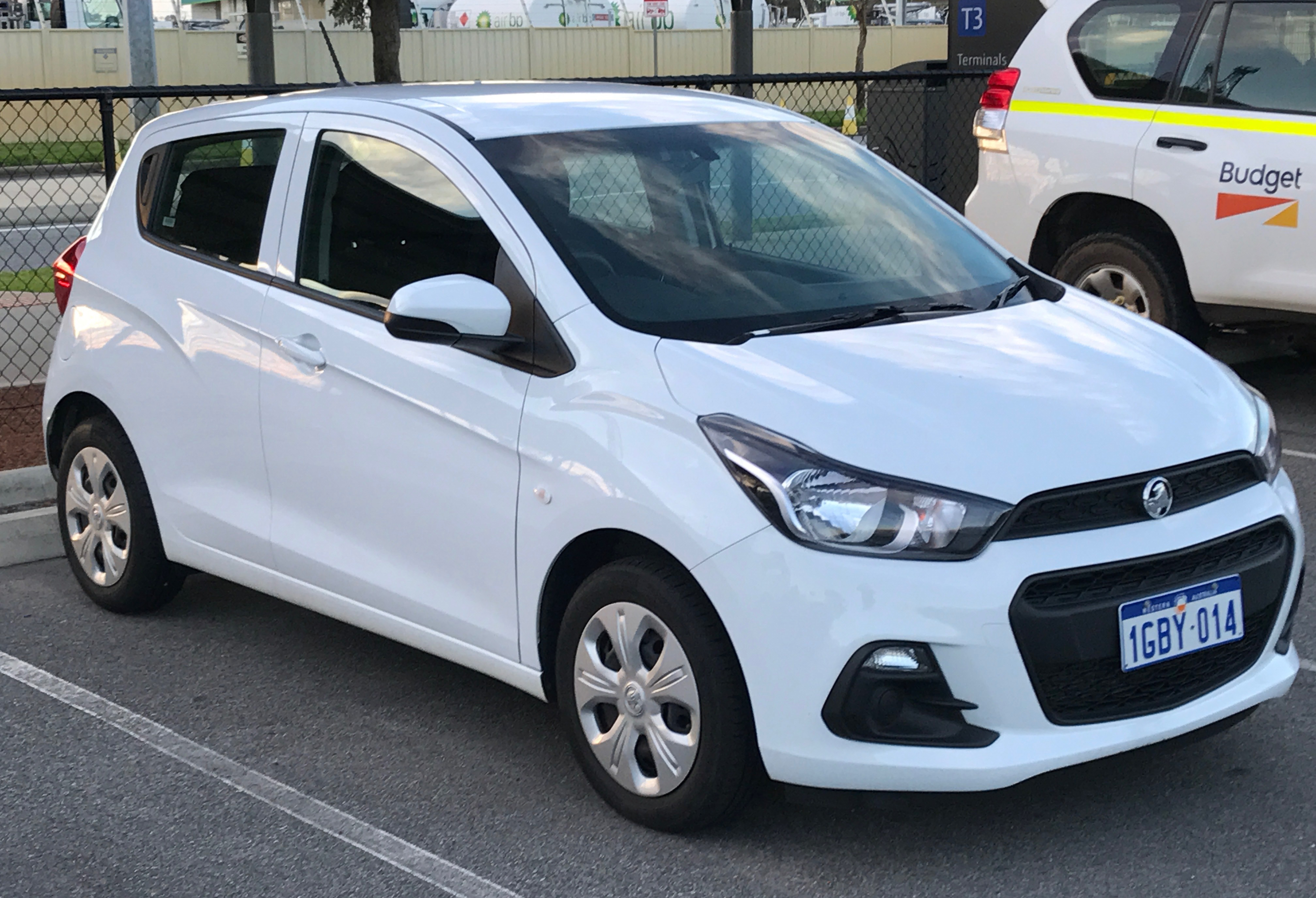 2016 Holden Barina Spark (MP MY17) LS hatchback. Photographed at Perth Airport, Belmont, Western Australia, Australia.